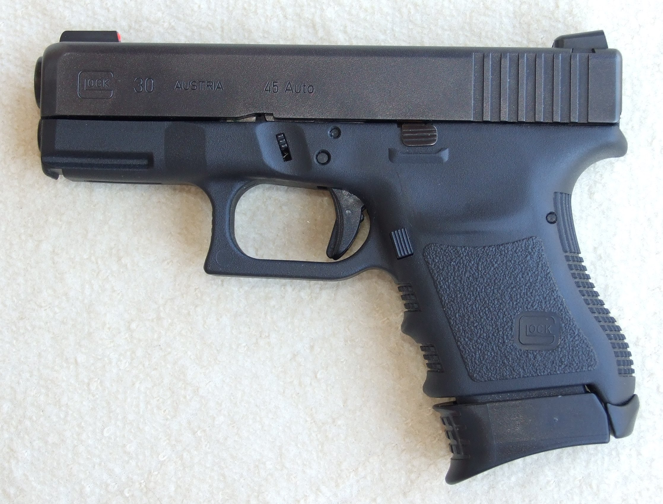 Pistol Glock 30 caliber 45 ACP